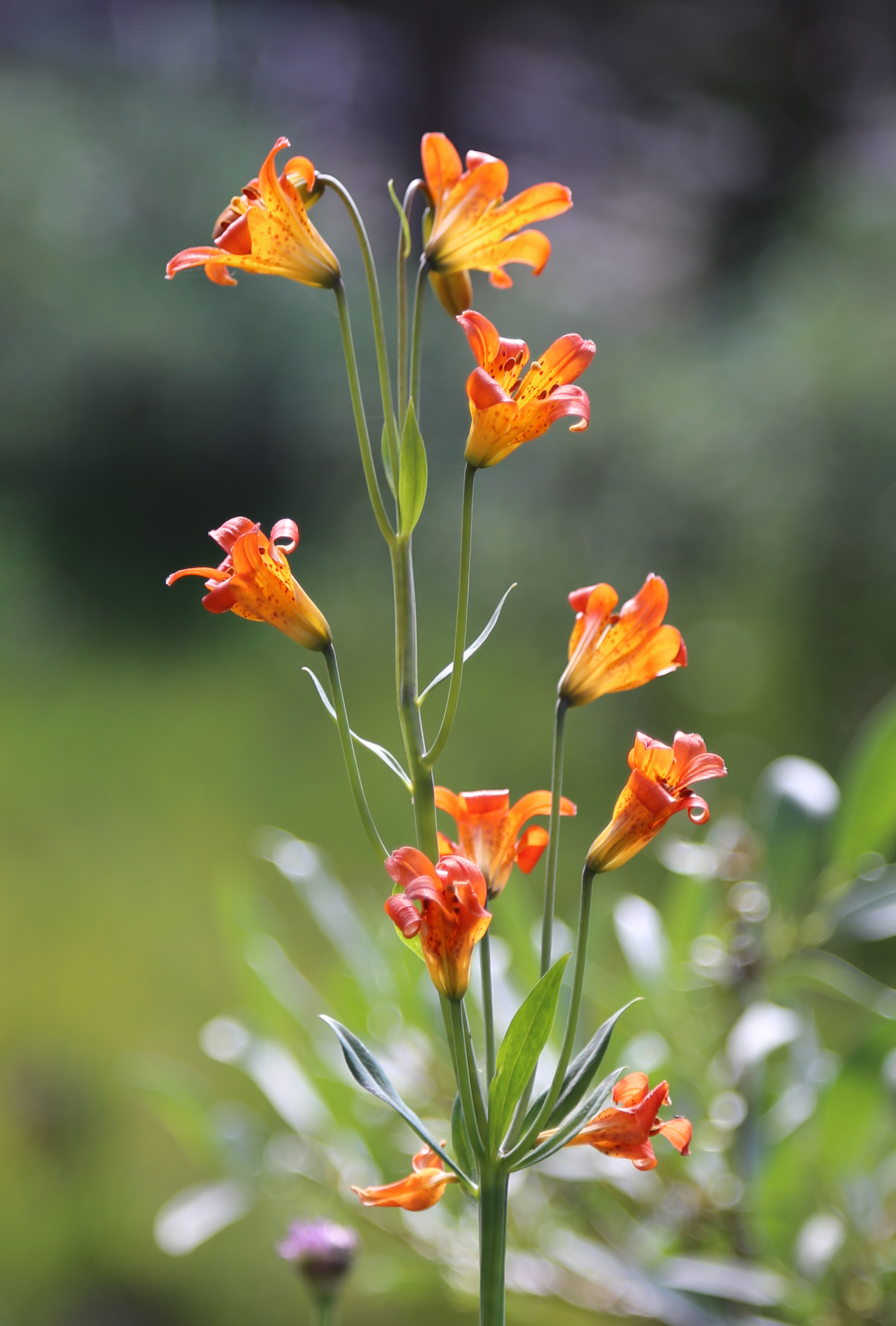 Alpine lily (Lilium parvum), aka Sierra or small tiger lily, flowerhead with leaf whorl. At about 10,000ft in Glacier Canyon below Dana Plateau, Ansel Adams Wilderness, Sierra Nevada USA.